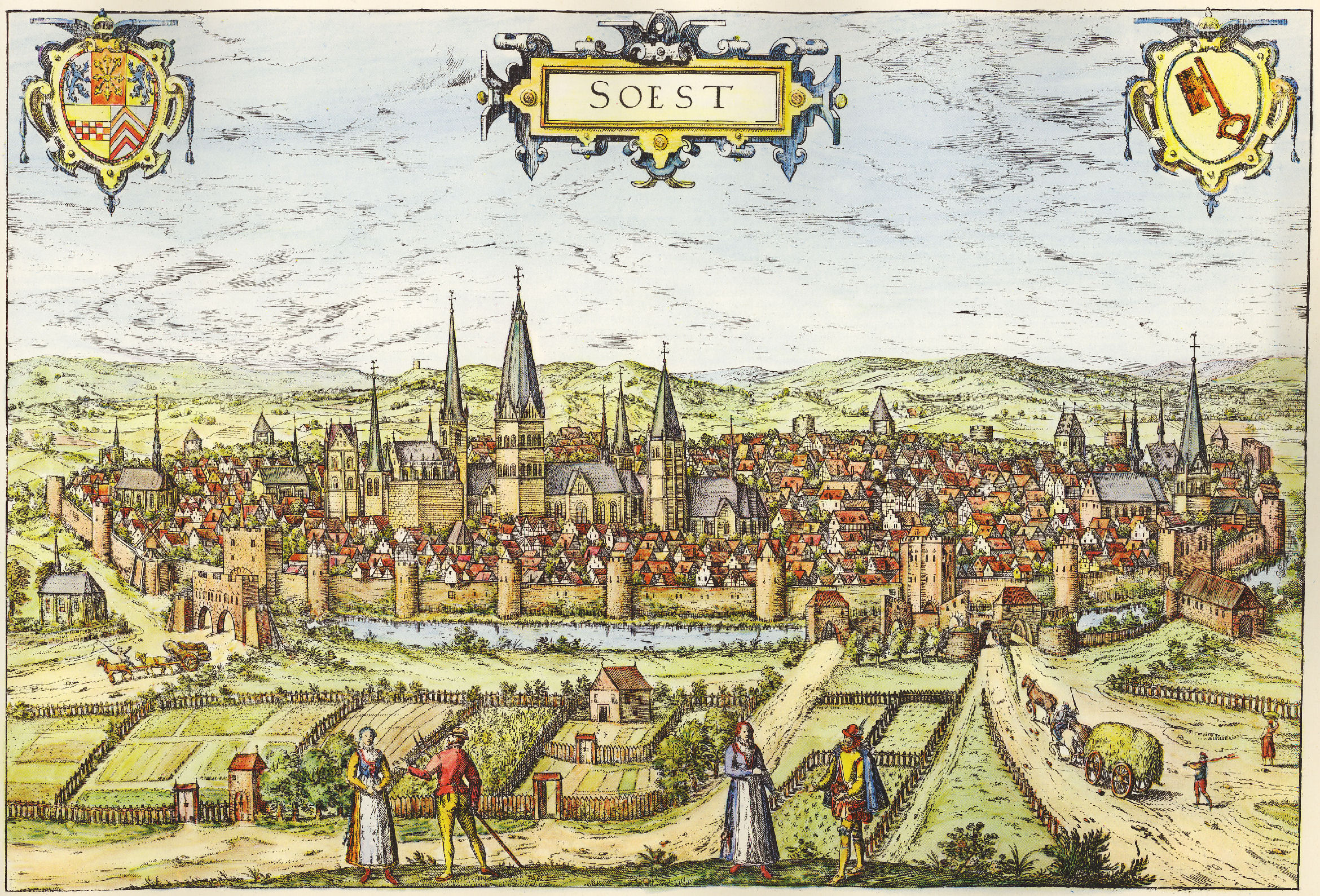 historical sight of the German town of Soest by Georg Braun and Franz Hogenberg (between 1572 and 1618)